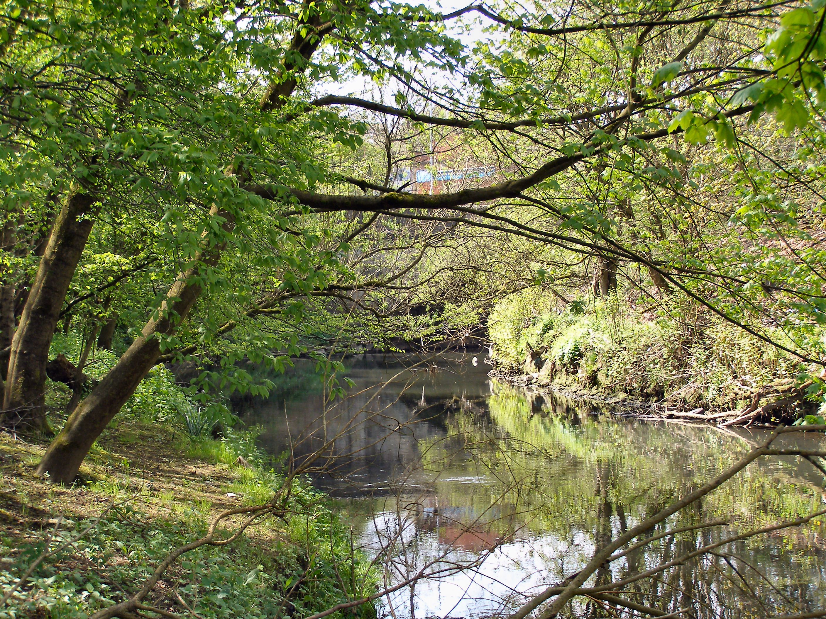 River Roch, near Hooley Bridge, Data from Geograph: Description: SD8511 :: River Roch, near Hooley Bridge, near to Heywood, Rochdale, Great Britain ICBM: 53.600707355575, -2.2213073344612 Location: (about 1 km from) near to Heywood, Rochdale, Great Britain.